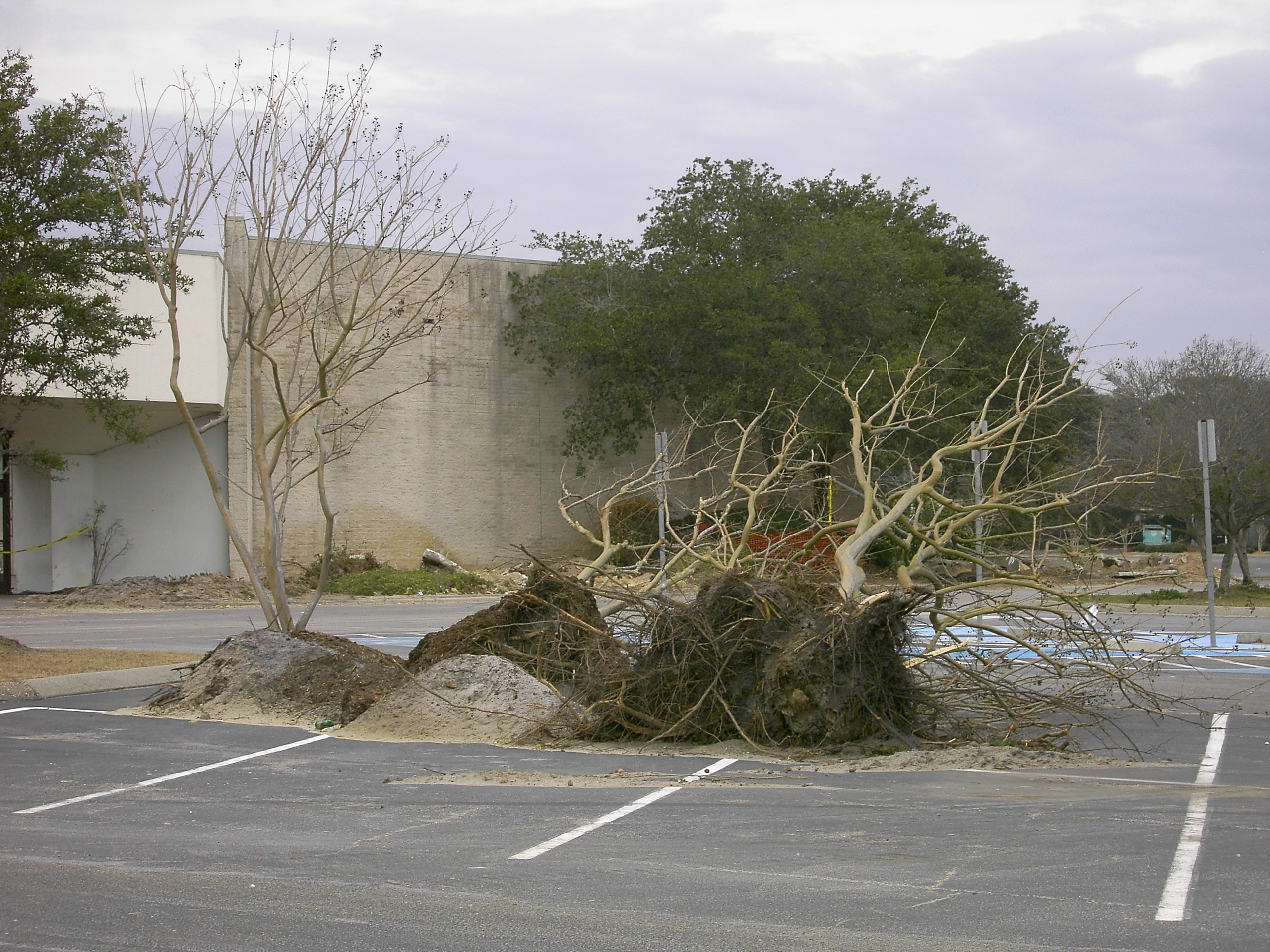 A photo that I took of the demolition of Myrtle Square Mall. It may appear on one of my websites, or on a Yahoo! Photos account under the same license as on Wikipedia.